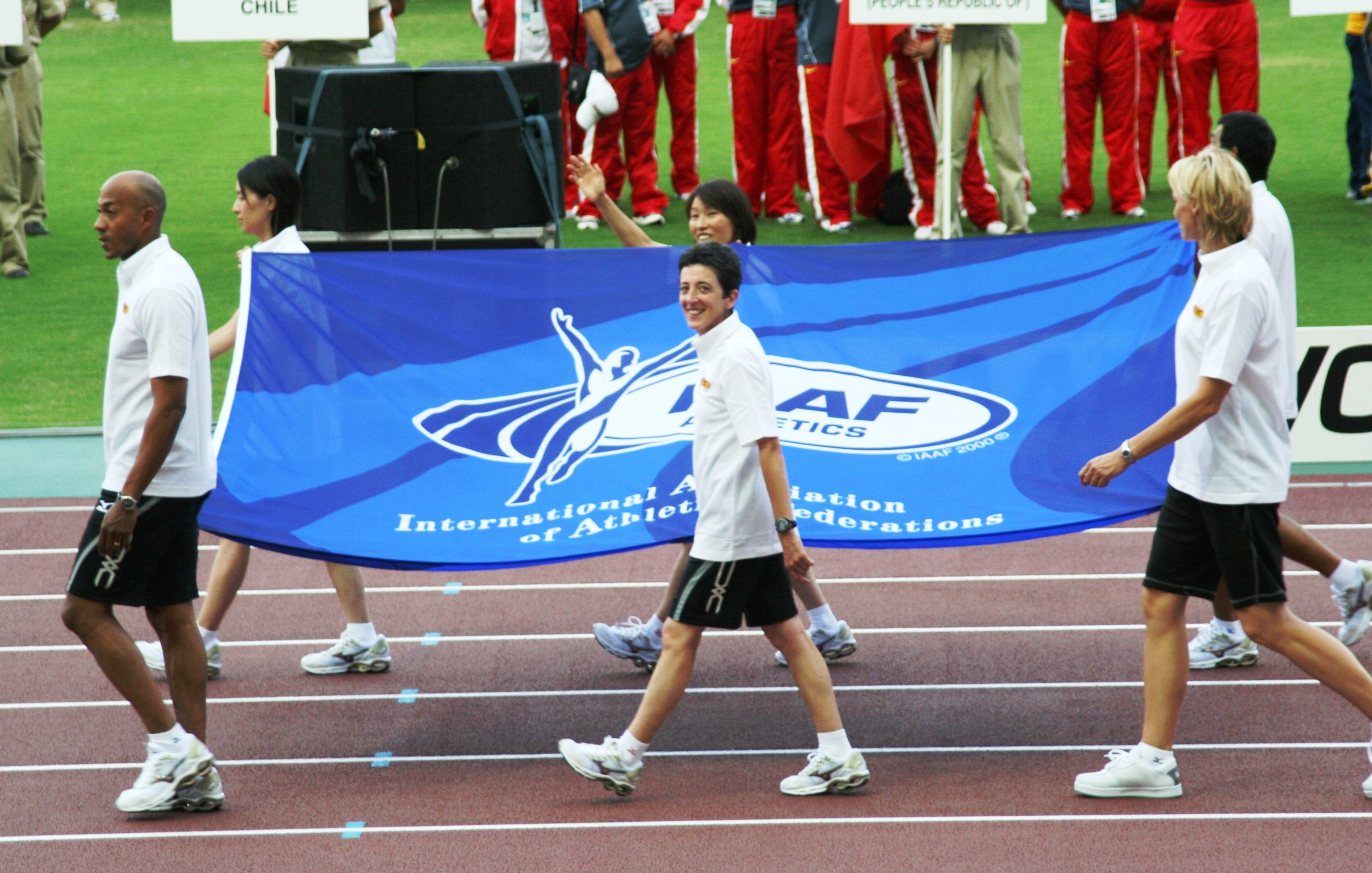 World Athletics Championships 2007 in Osaka - The IAAF flag carried by (in foreground) Frankie Fredericks, Rosa Mota, Heike Drechsler